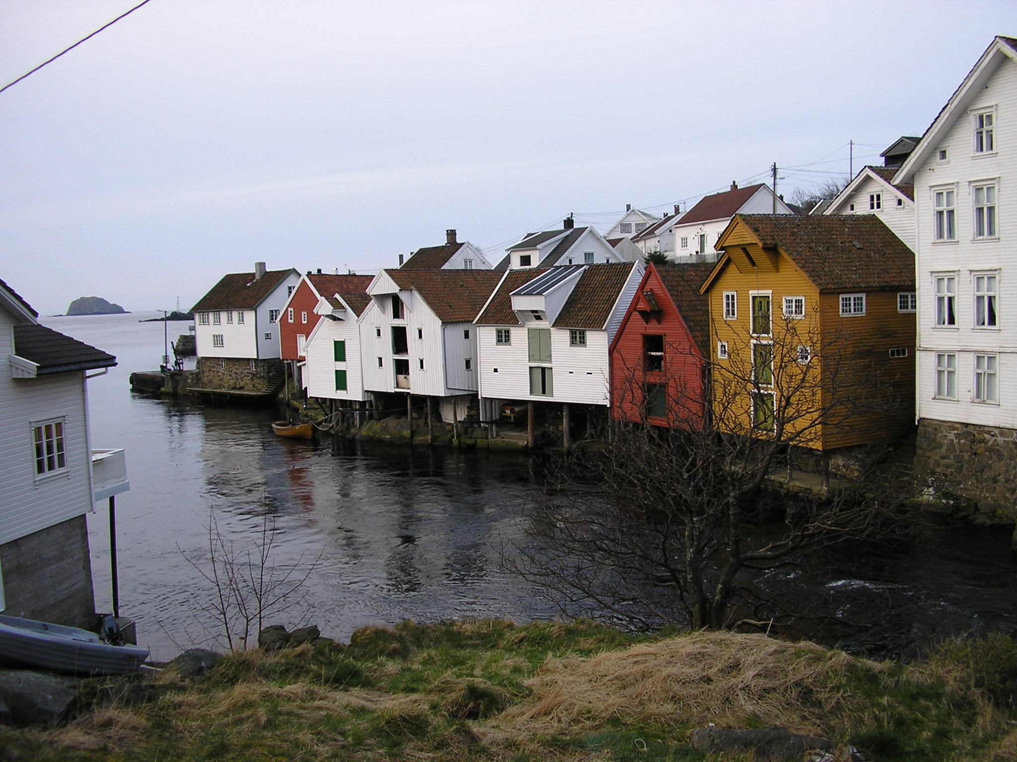 View of Sogndalstrand, Sokndal, Rogaland, Norway